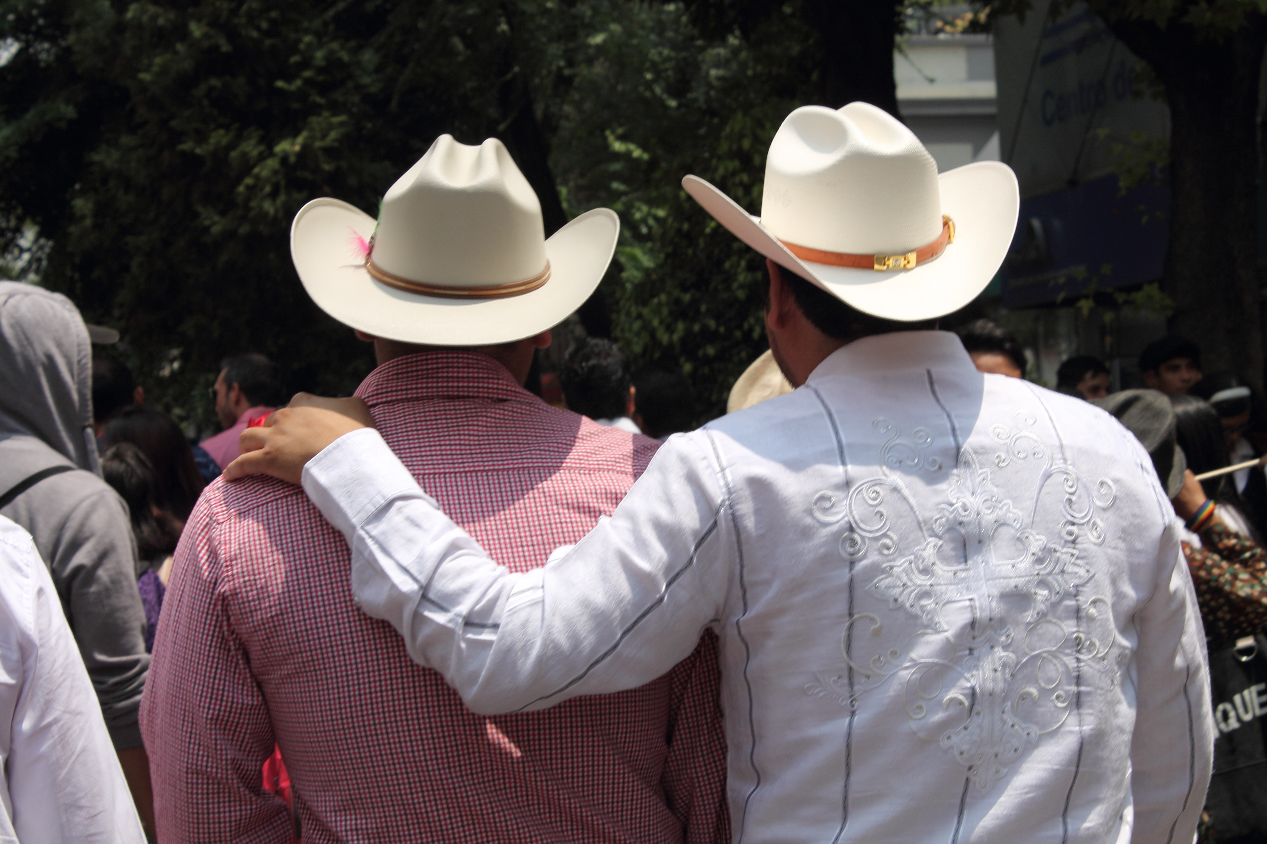 Brokeback Mountain 2